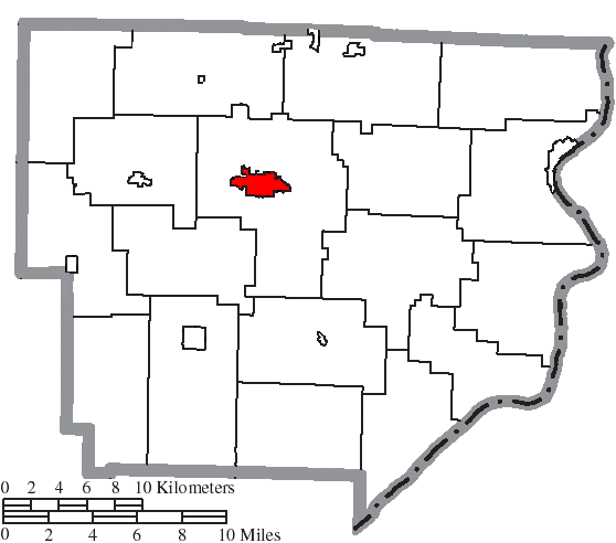 Map of the municipal and township boundaries of Monroe County, Ohio, United States, as of the 2000 census, with the location of the village of Woodsfield highlighted. Township borders are shown only in unincorporated areas in order to differentiate incorporated and unincorporated areas more clearly.